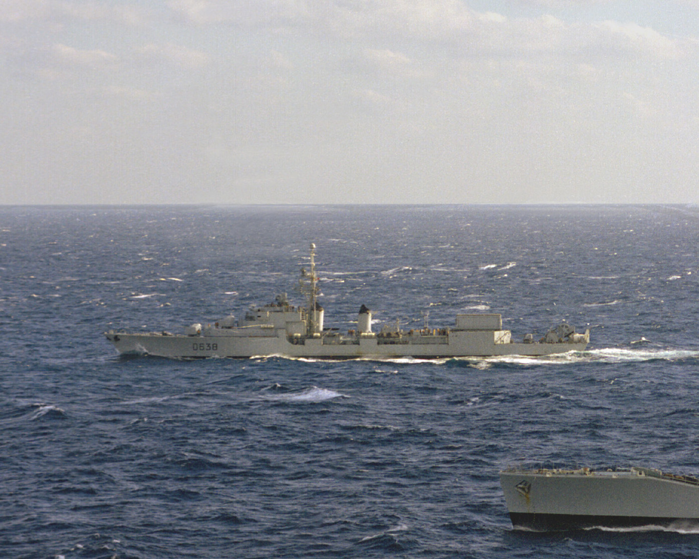 The French destroyer La Galissonniere (D638) underway during NATO exercises on 18 November 1978.